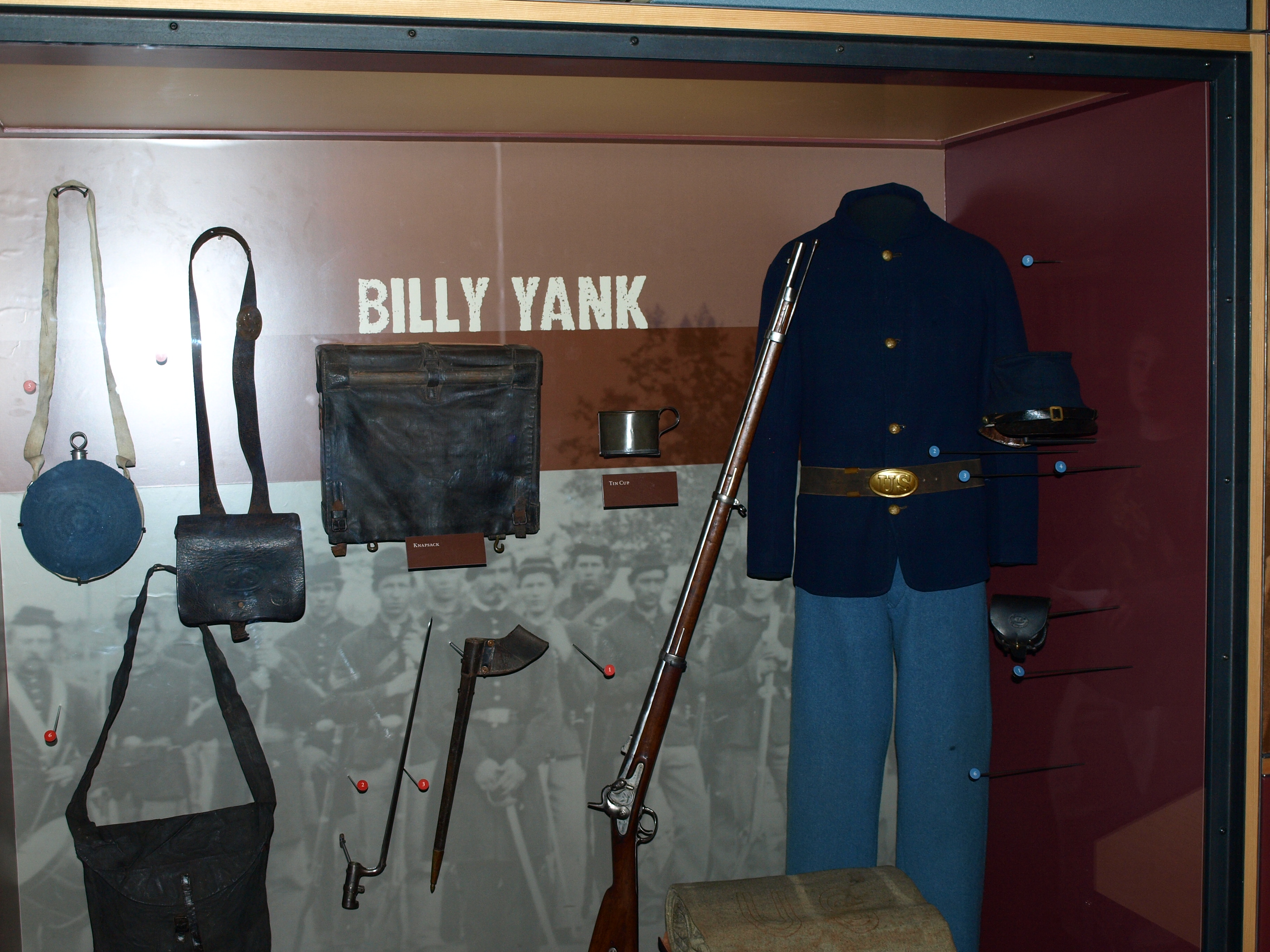 A little of the typical gear of "Billy Yank"